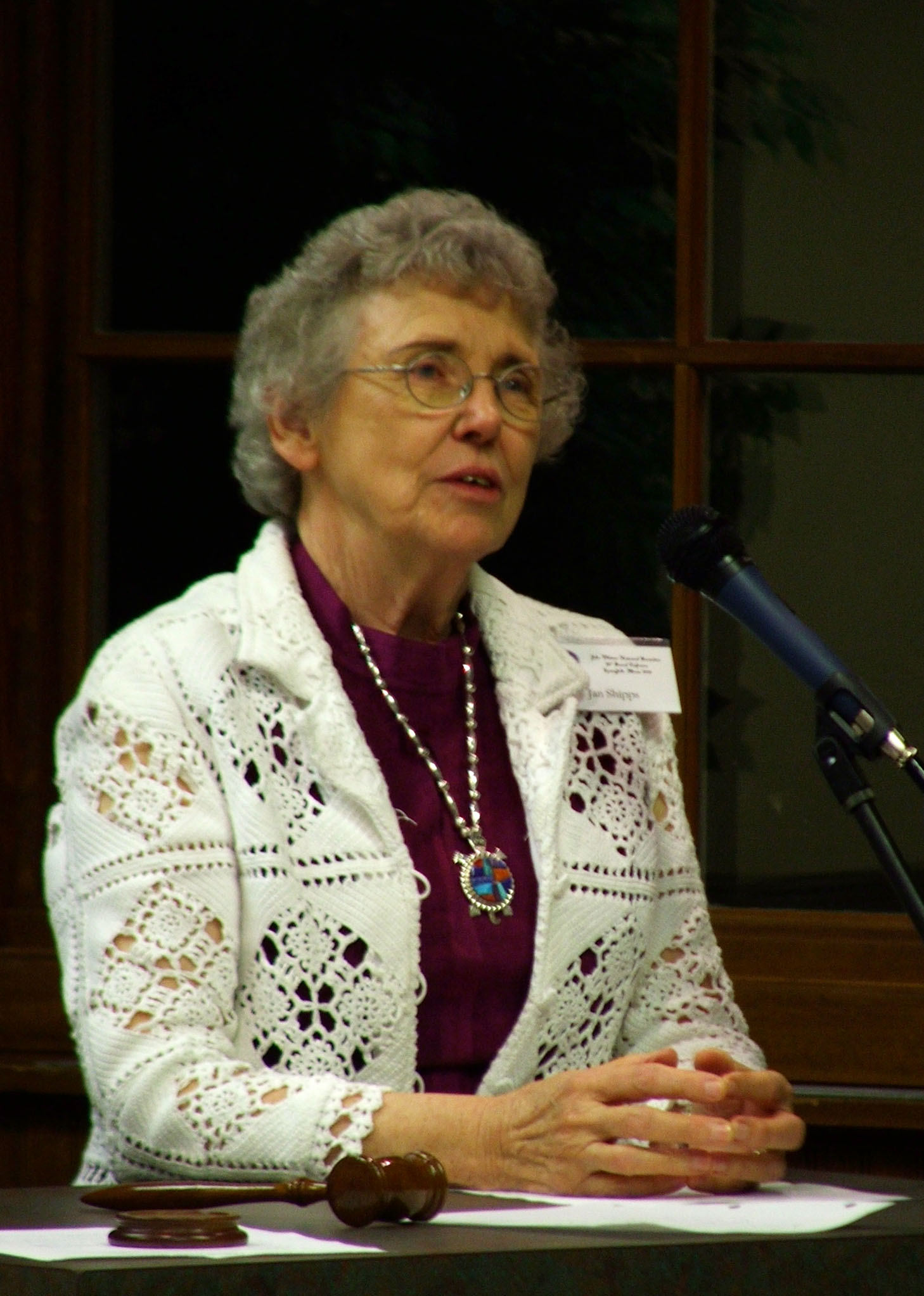 Jan Shipps, a non-Mormon historian of the Latter Day Saint movement, addresses a meeting of the John Whitmer Historical Association